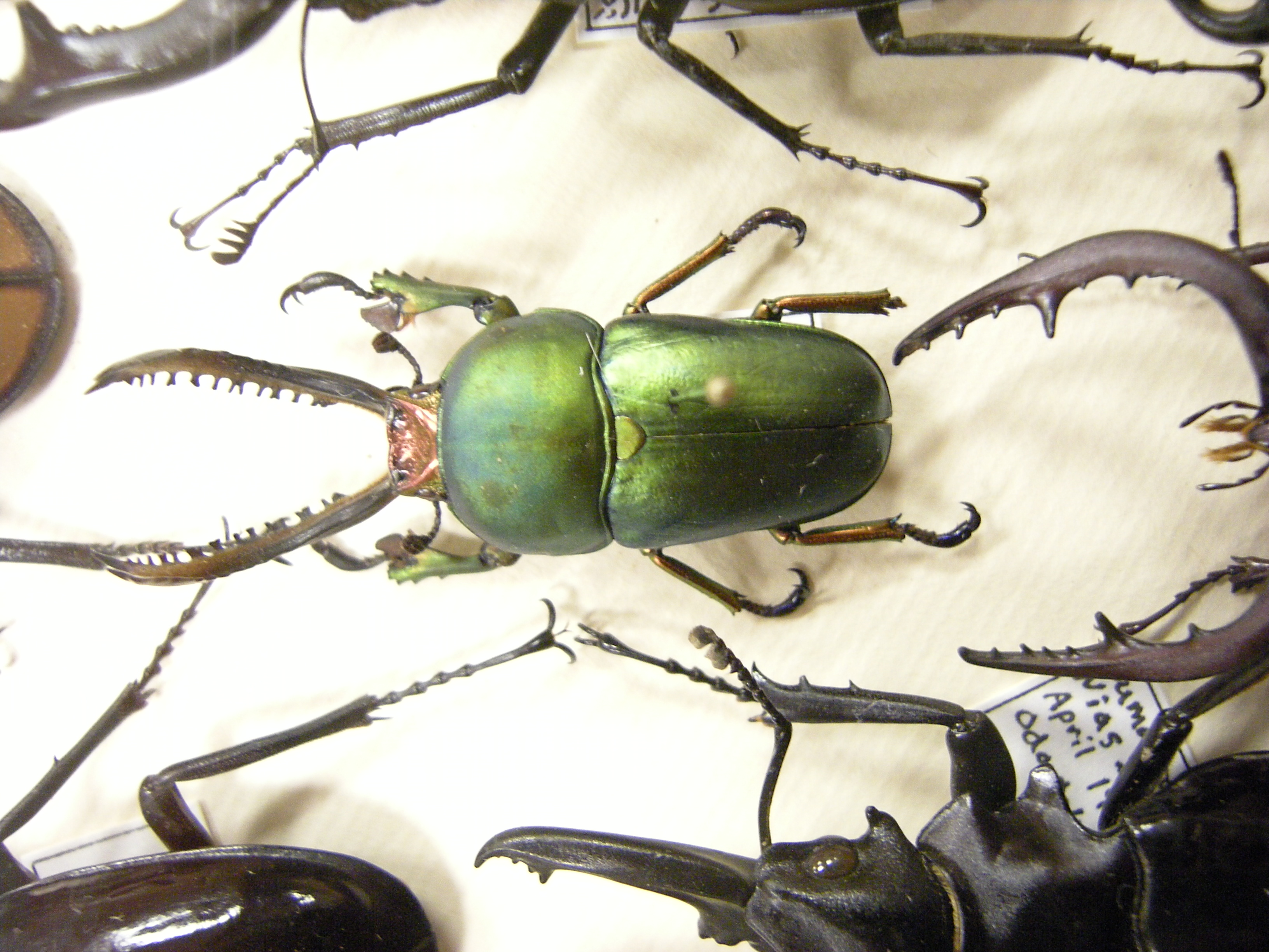 Lamprima adolphinae Lucanidae. Part of Don Ehlen's "Insect Safari" collection.